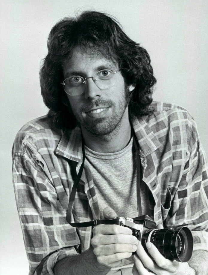 Photo of Daryl Anderson as Dennis Price ("Animal"), the newspaper's photographer on the television program Lou Grant.